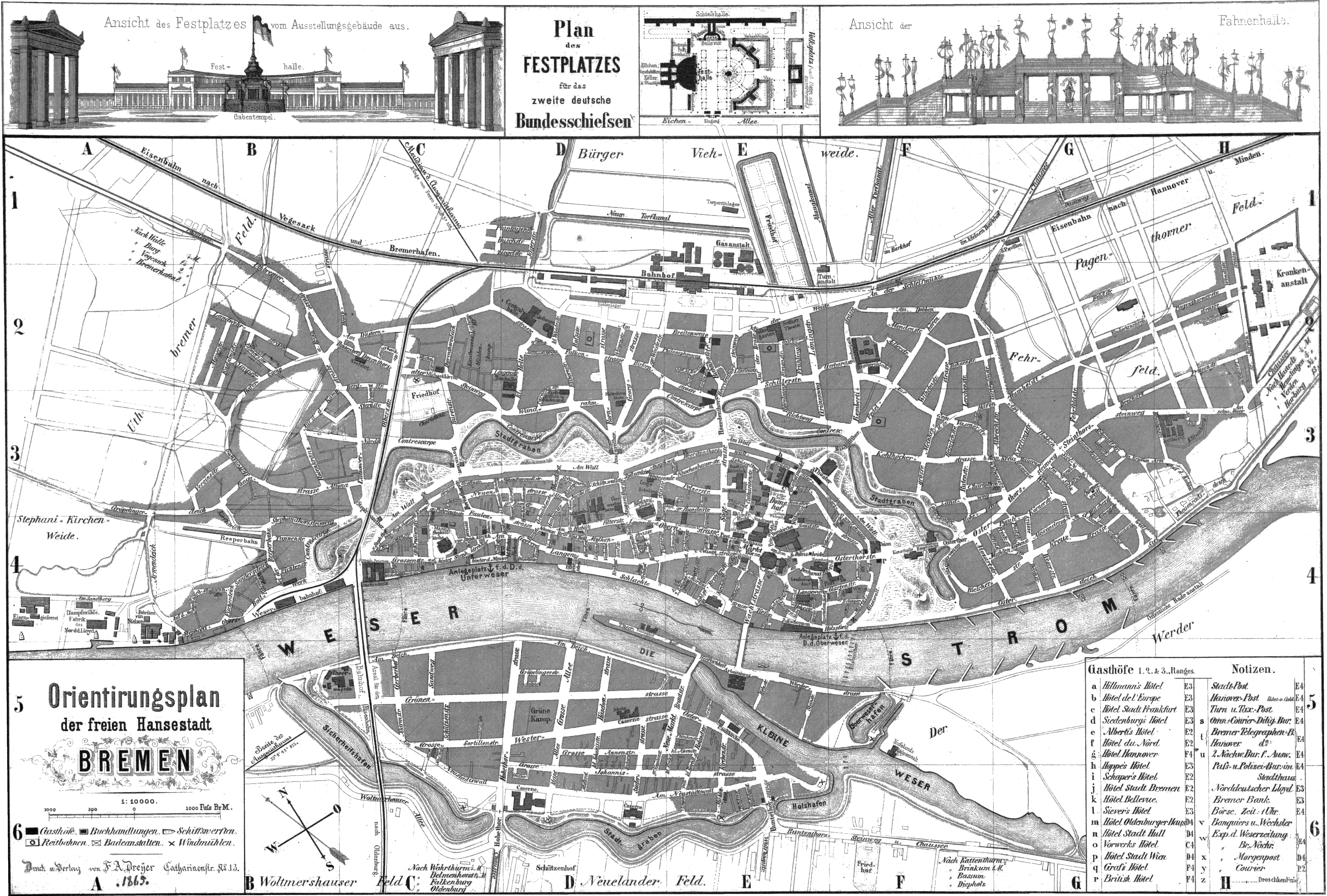 Map of Bremen city and its suburbs from 1865.